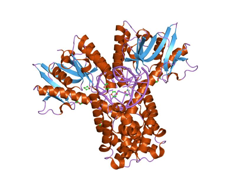 Cartoon representation of the molecular structure of protein registered with 1dc1 code.